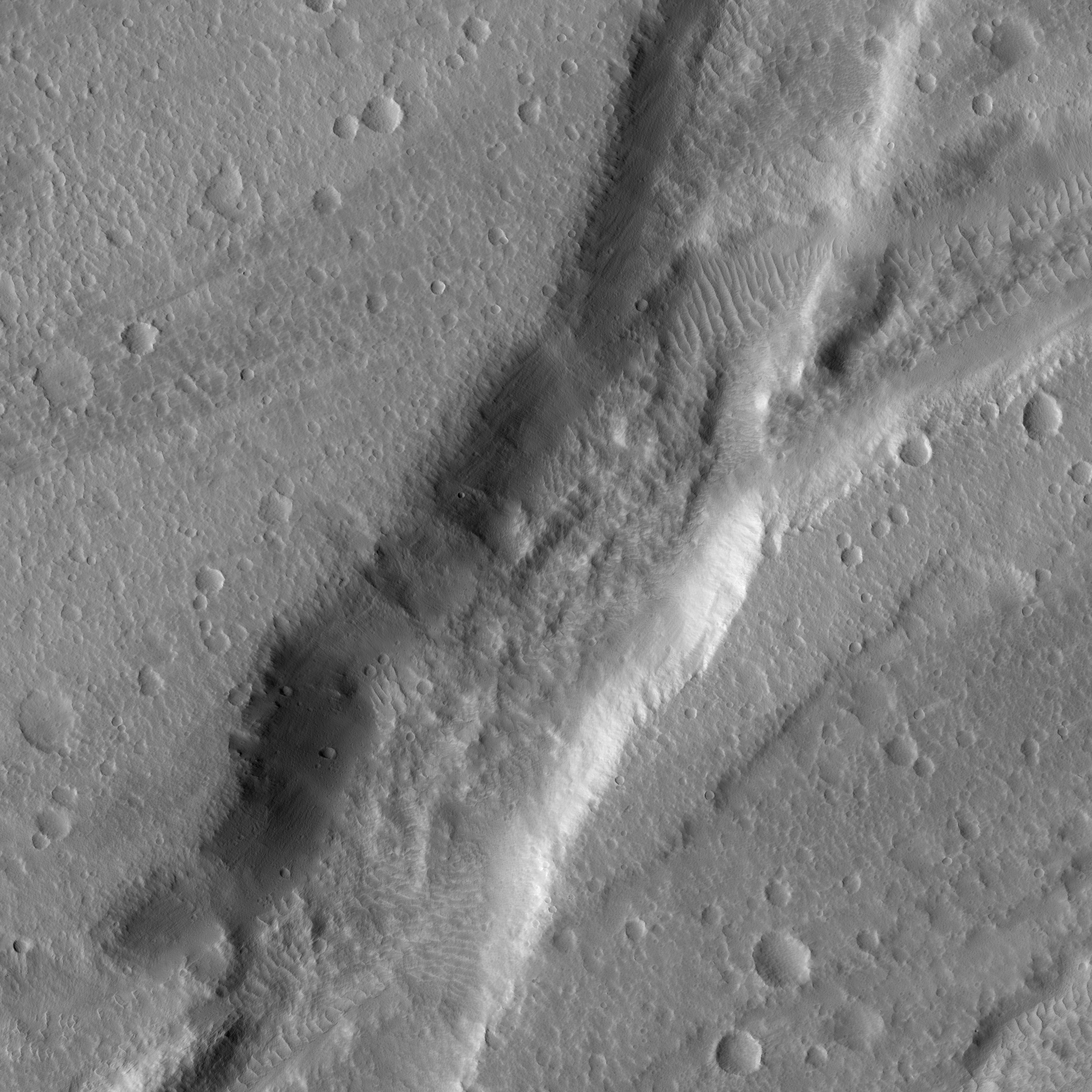 Portion of a possible strike-slip fault in Tempe Fossae region photographed by Mars Reconnaissance Orbiter.